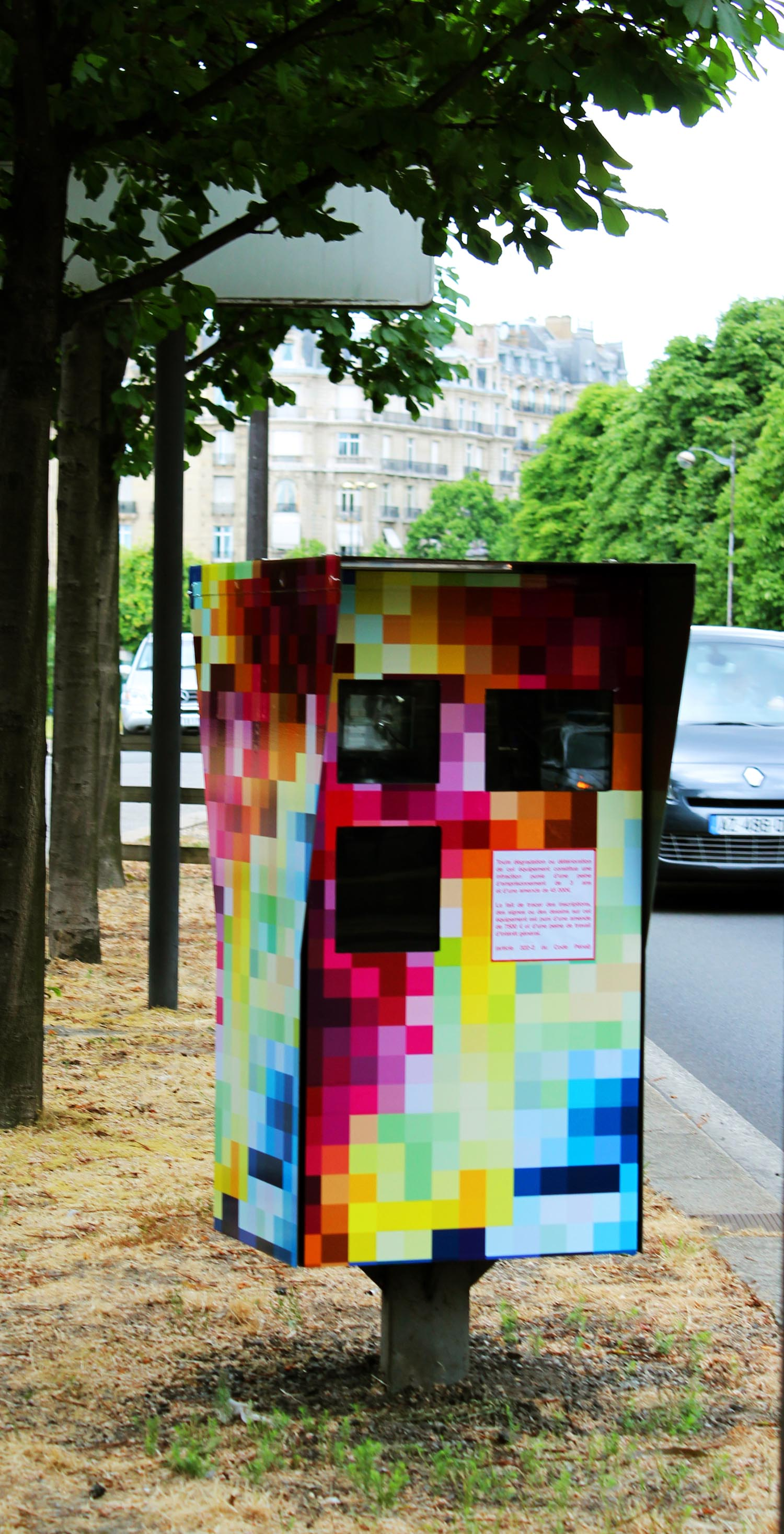 Pixel radar at Pont de l'Alma, Paris, France adorned by Chat Maigre in 2011.